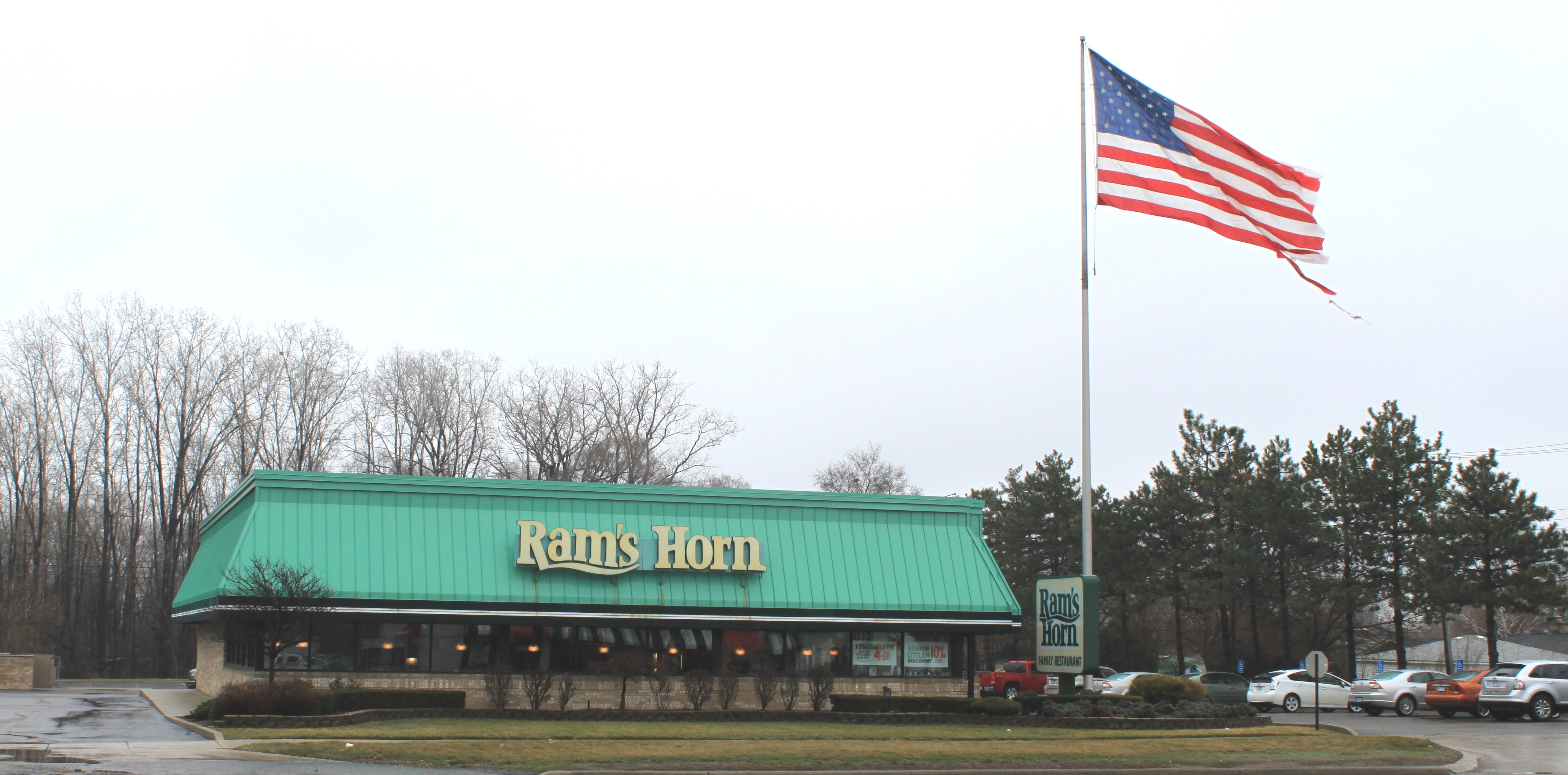 Ram's Horn restaurant, 7020 North Wayne Road, Westland, Michigan